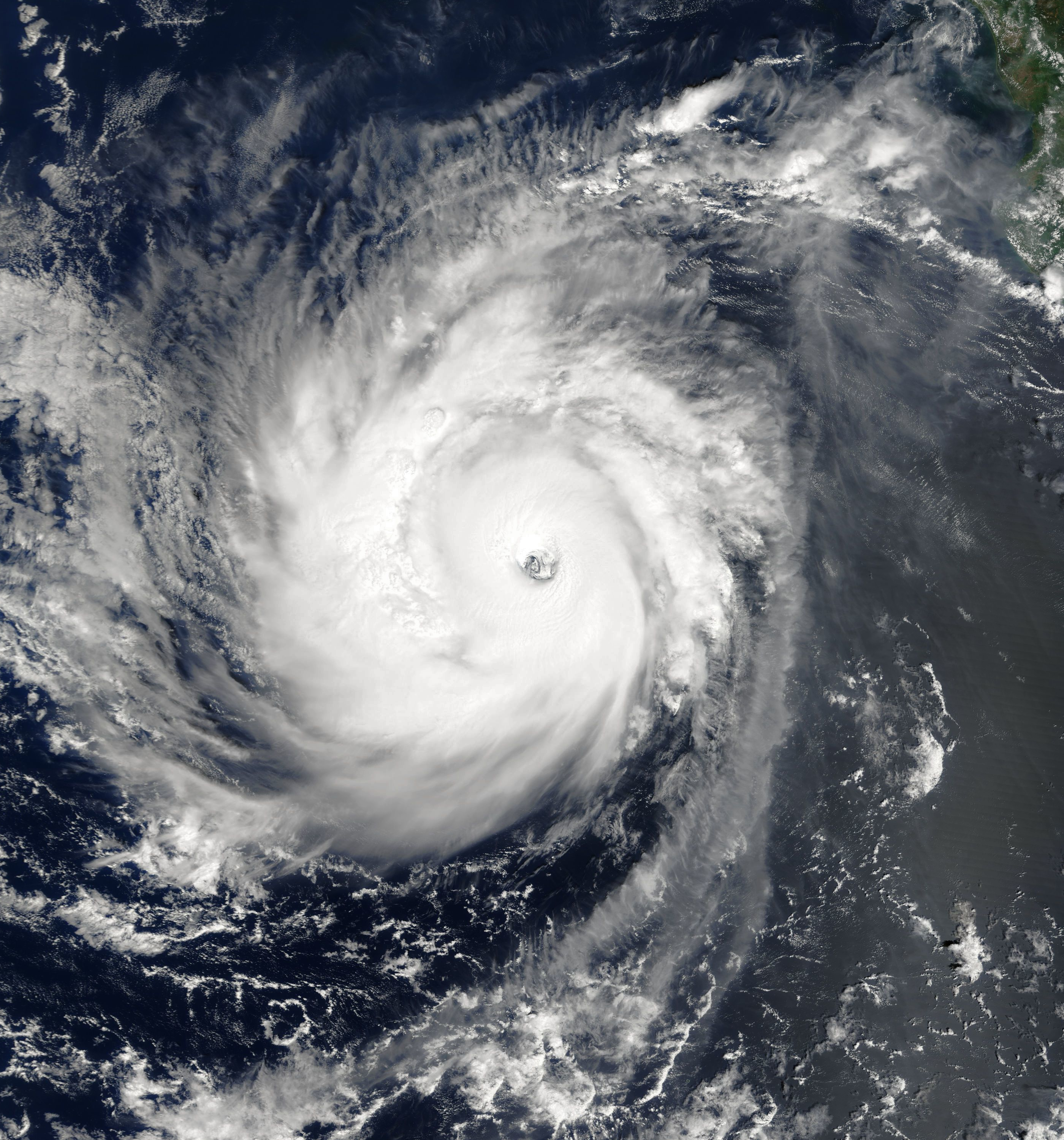 Hurricane Norbert at peak intensity south of Mexico on October 8.